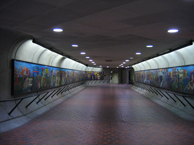 Corridor to the 13th Street entrance of the U St/African-Amer Civil War Memorial/Cardozo Washington Metro station. On the walls is the mural, "Community Rhythms" by Alfred J. Smith.